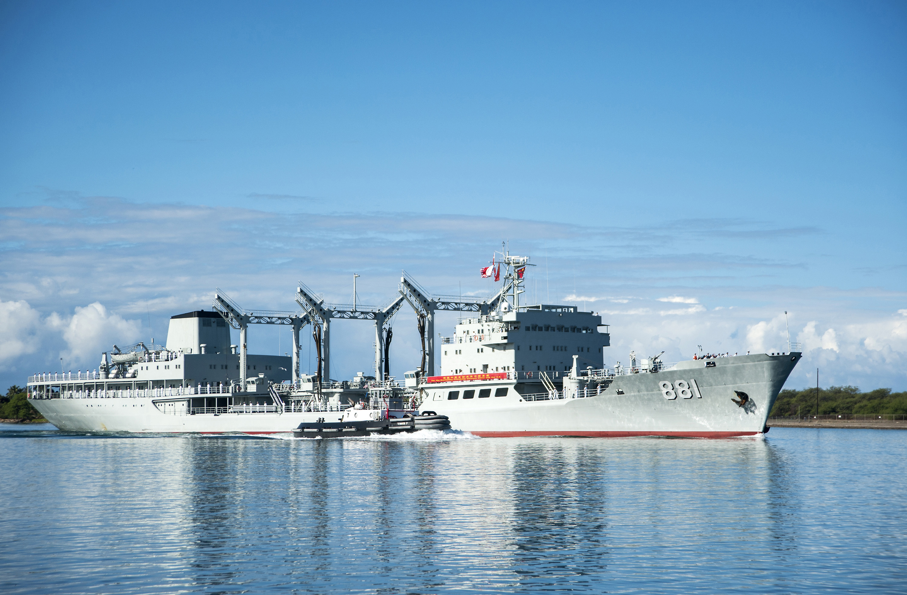 The Chinese People's Liberation Army-Navy Fuqing-class fleet oiler Hongzehu (AOR 881) arrives at Joint Base Pearl Harbor-Hickam.